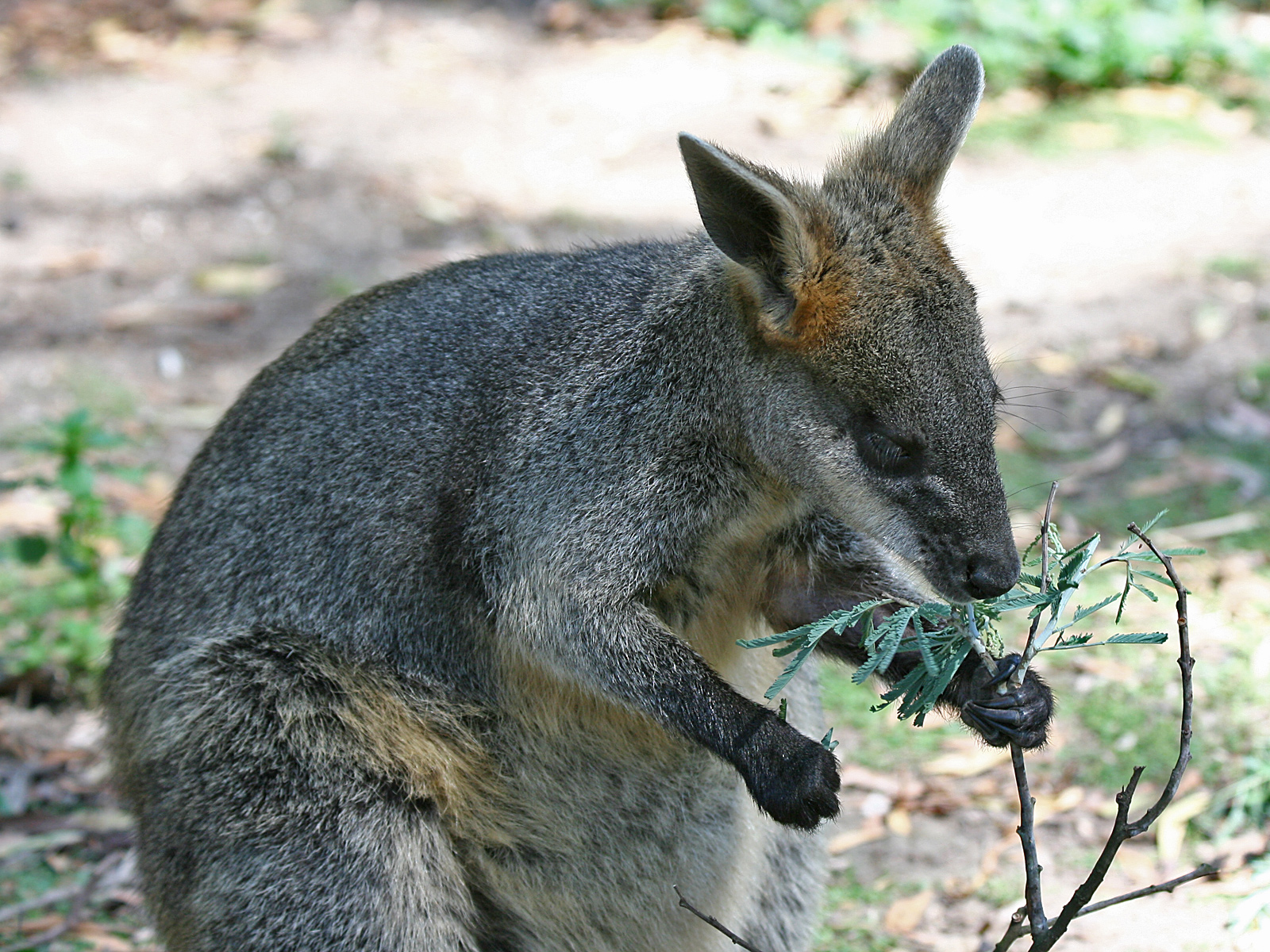 Female Swamp Wallaby (Wallabia bicolor) feeding, showing the species unusual preference for browsing compared to most other macropods that tend to graze. Victoria, Australia. January, 2008.